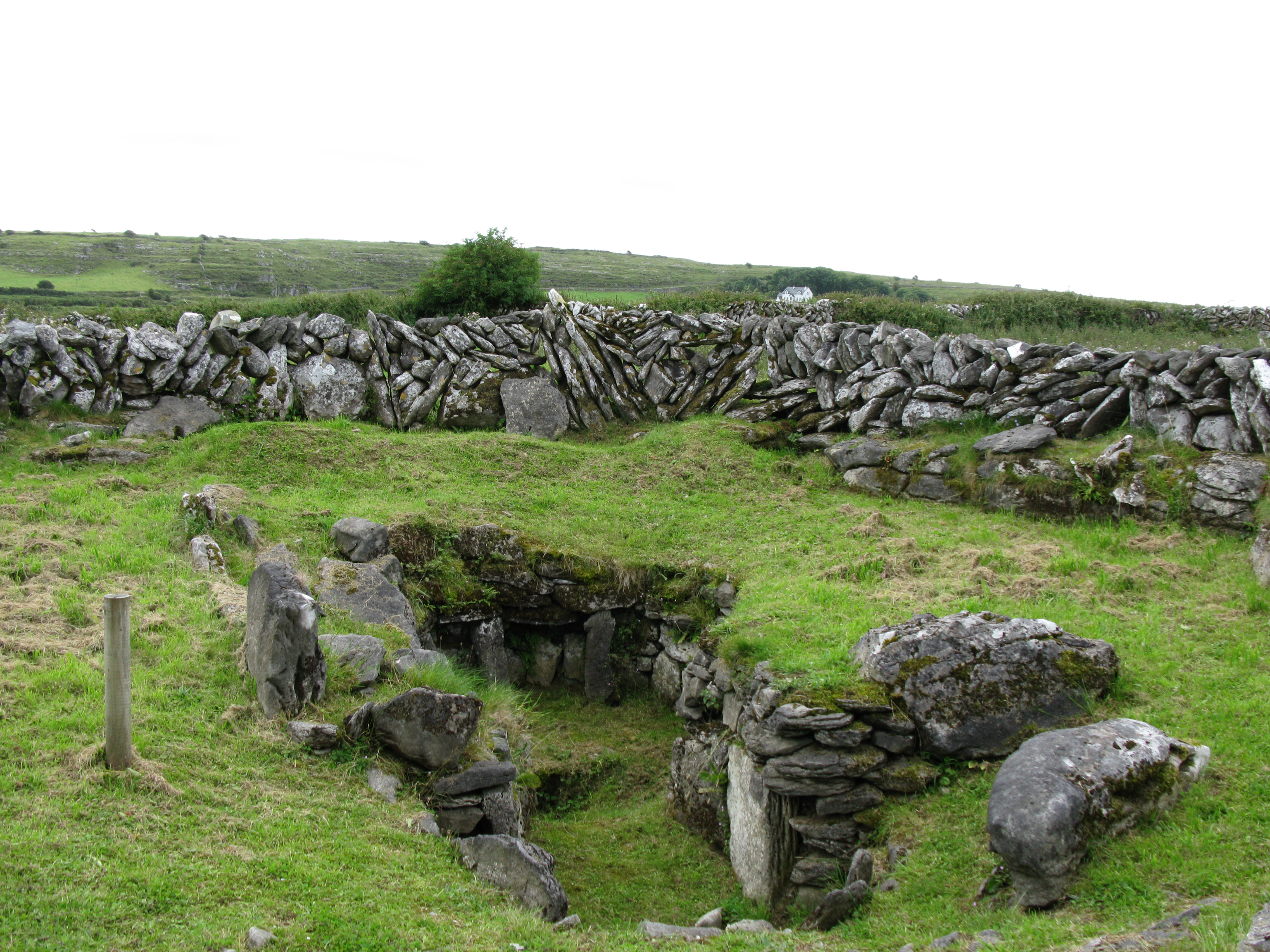 Archaeological excavation of the Caherconnell Stone Fort in the Burren, Republic of Ireland